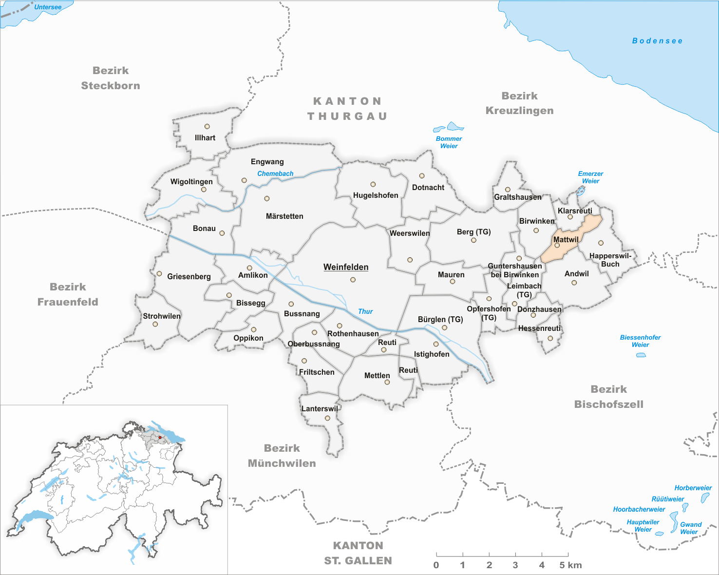 Municipality Mattwil